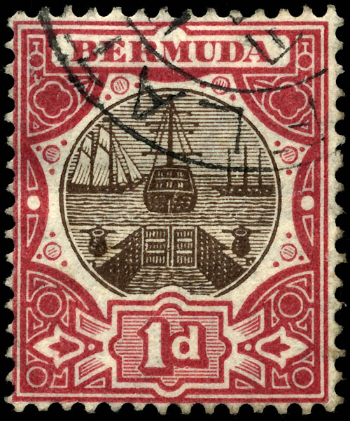 Bermuda 1-penny stamp of 1906